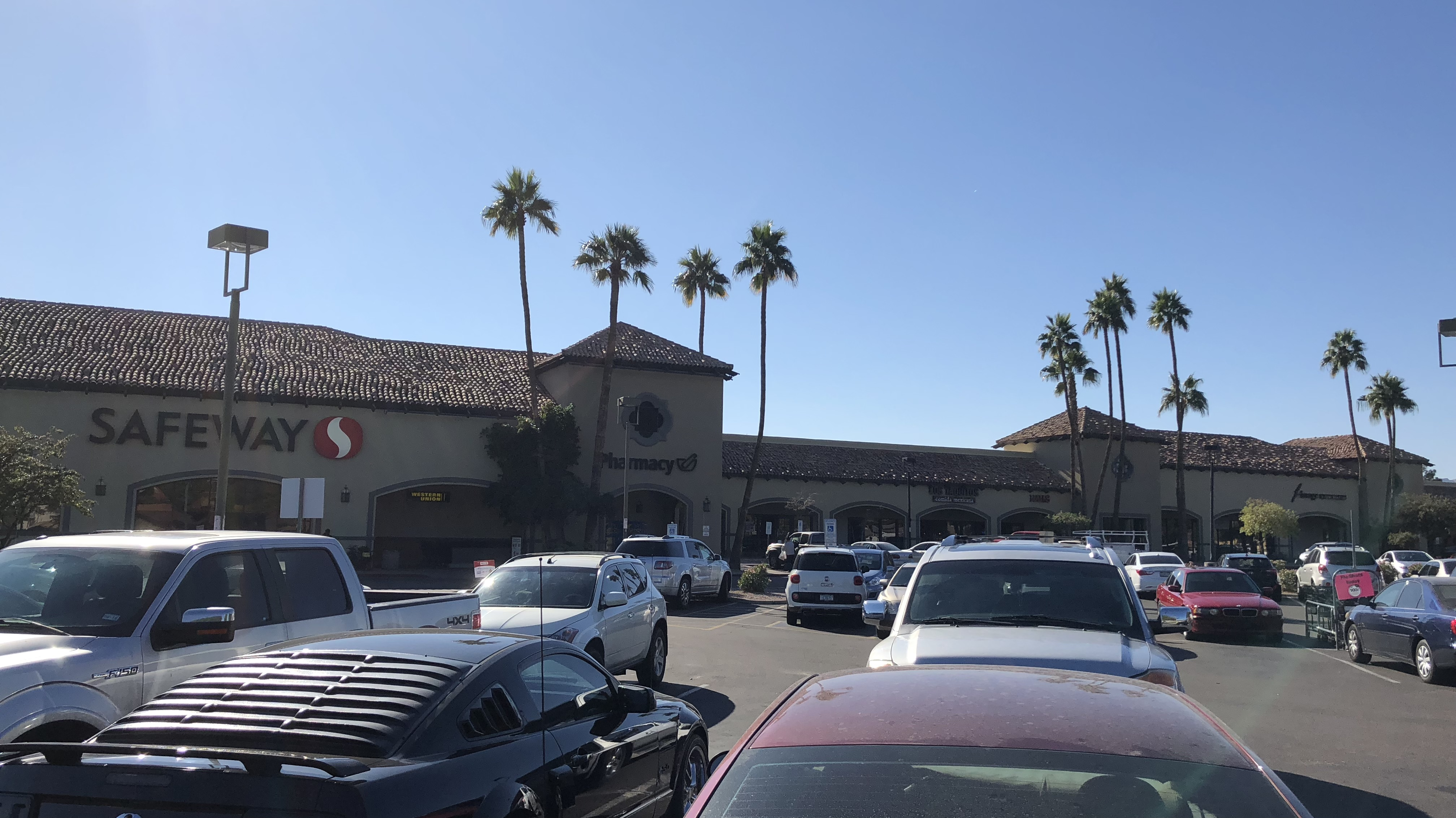 Ahwatukee Mercado, a strip mall in Ahwatukee, Phoenix, Arizona